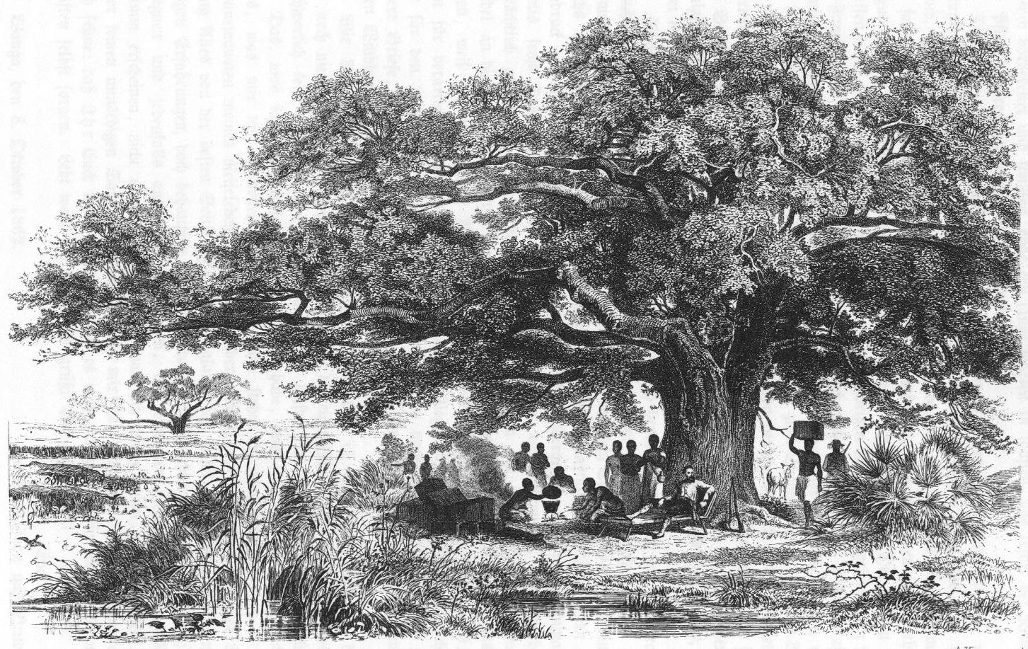 Carl Claus von der Decken Rast unter großem Baum am See Teka